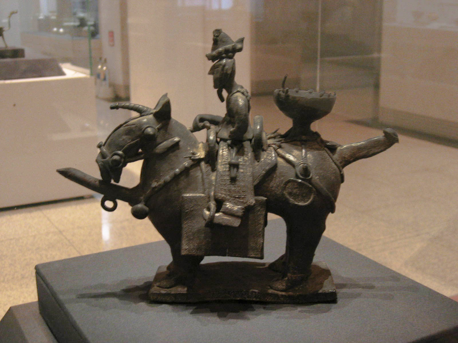 Silla horse rider pottery. National treasure. National Museum of Korea.